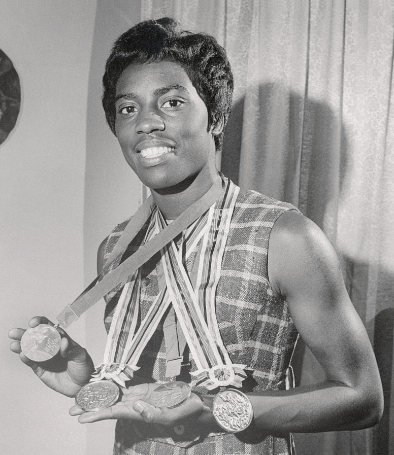 1968 Press Photo Wyomia Tyus Worlds Fastest Woman with 2 Olympic Gold Medals